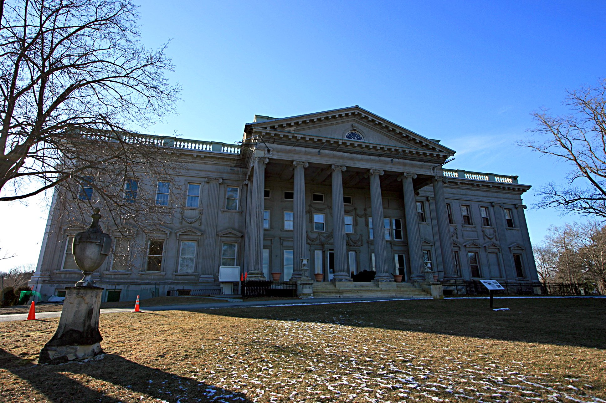 Photograph of the frontside of the Mills Mansion in the Staatsburgh State Historic Site, New York, USA.